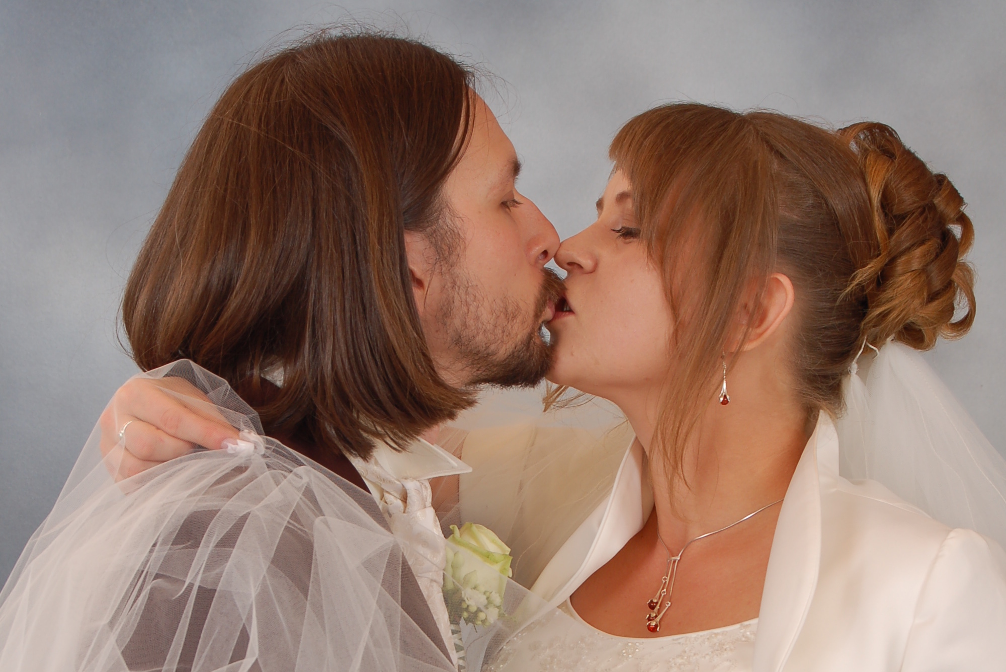 Ejdzej and Iric wedding photo